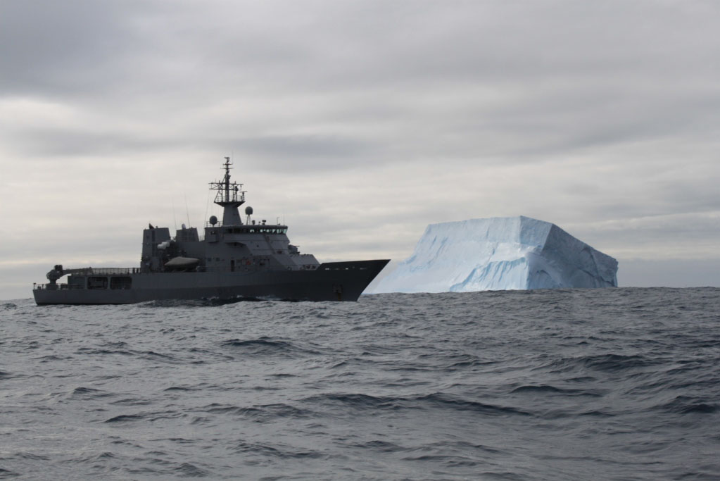 The Offshore Patrol Vessels (OPVs), OTAGO and WELLINGTON , deliver substantial new capability to the Royal New Zealand Navy. The ships can go further offshore, stay at sea longer, and conduct more challenging operations than the Inshore Patrol Vessels, and will enable the RNZN to conduct patrol and surveillance operations around New Zealand , the southern ocean and into the Pacific. 20110221_WGN_M19193_0012 Crown Copyright 2011, NZ Defence Force – Some Rights Reserved.